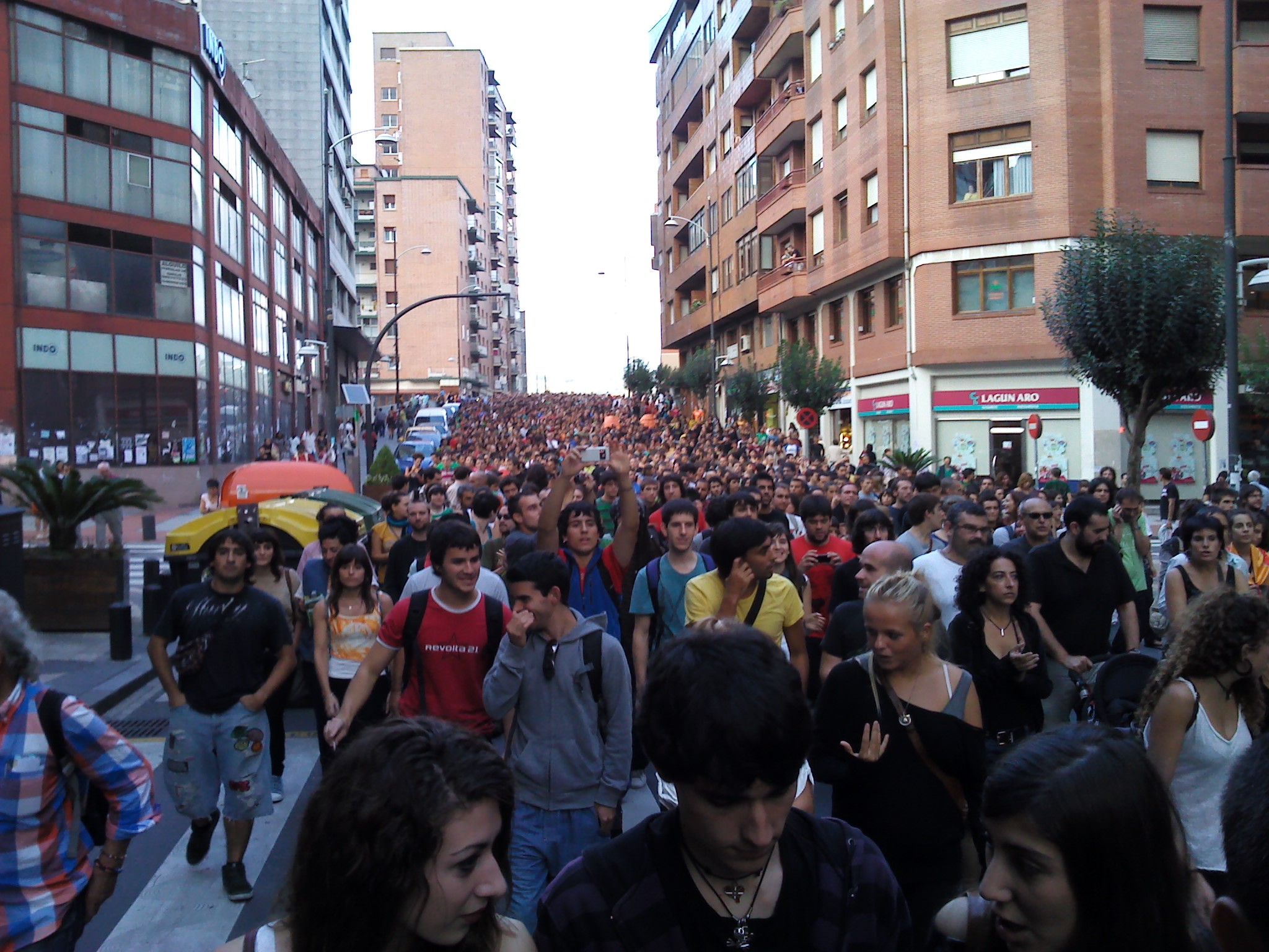 Demonstration against vacating of Kukutza people-house.